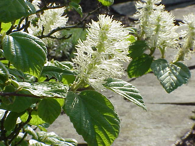 Species: Fothergilla major Family: Hamamelidaceae Image No. 4